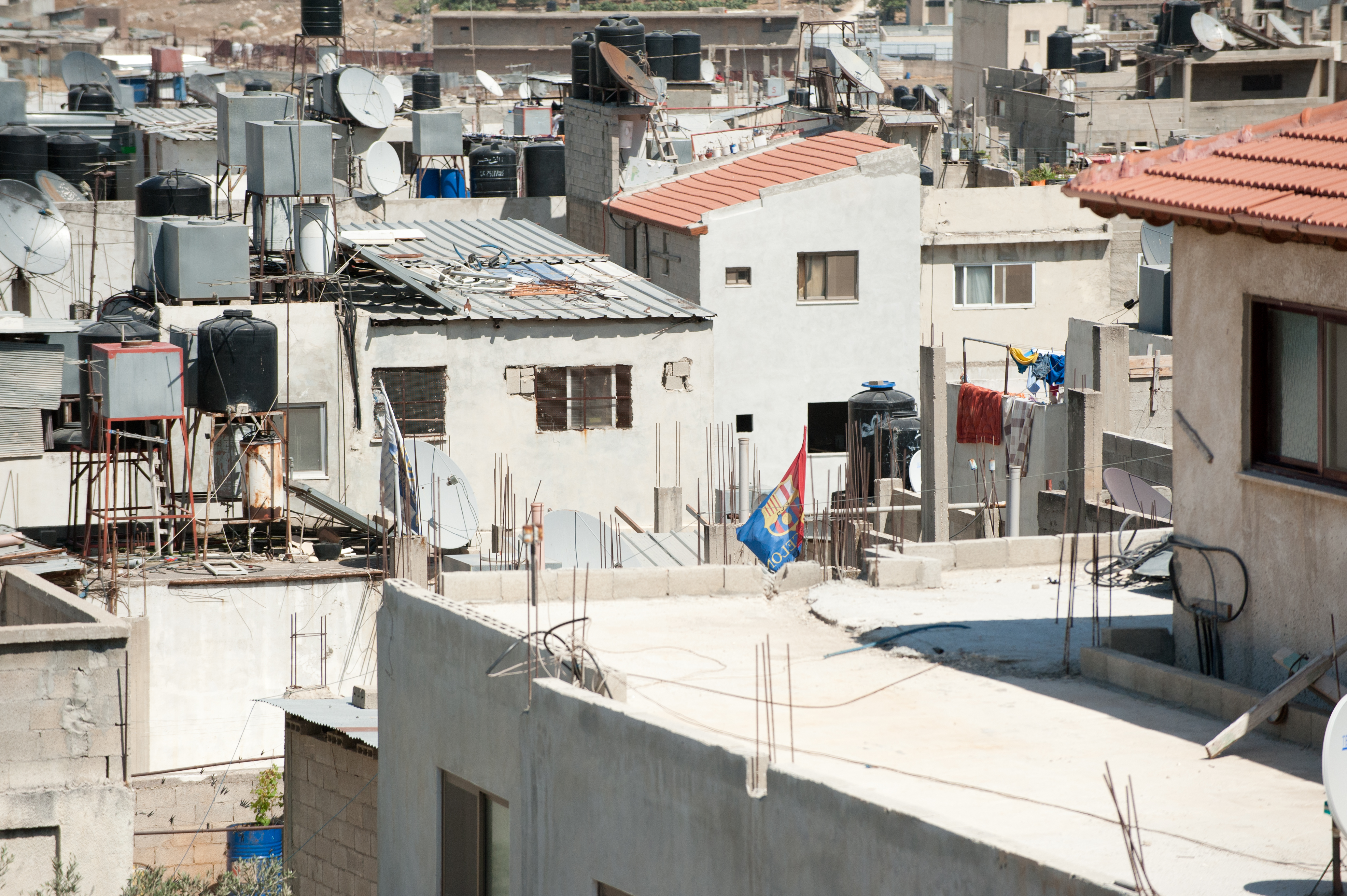 Rooftops and a FC Barcelona flag in the Balata refugee camp in Nablus, West Bank, Palestinian territories